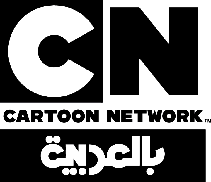 Cartoon Network Arabic's logo